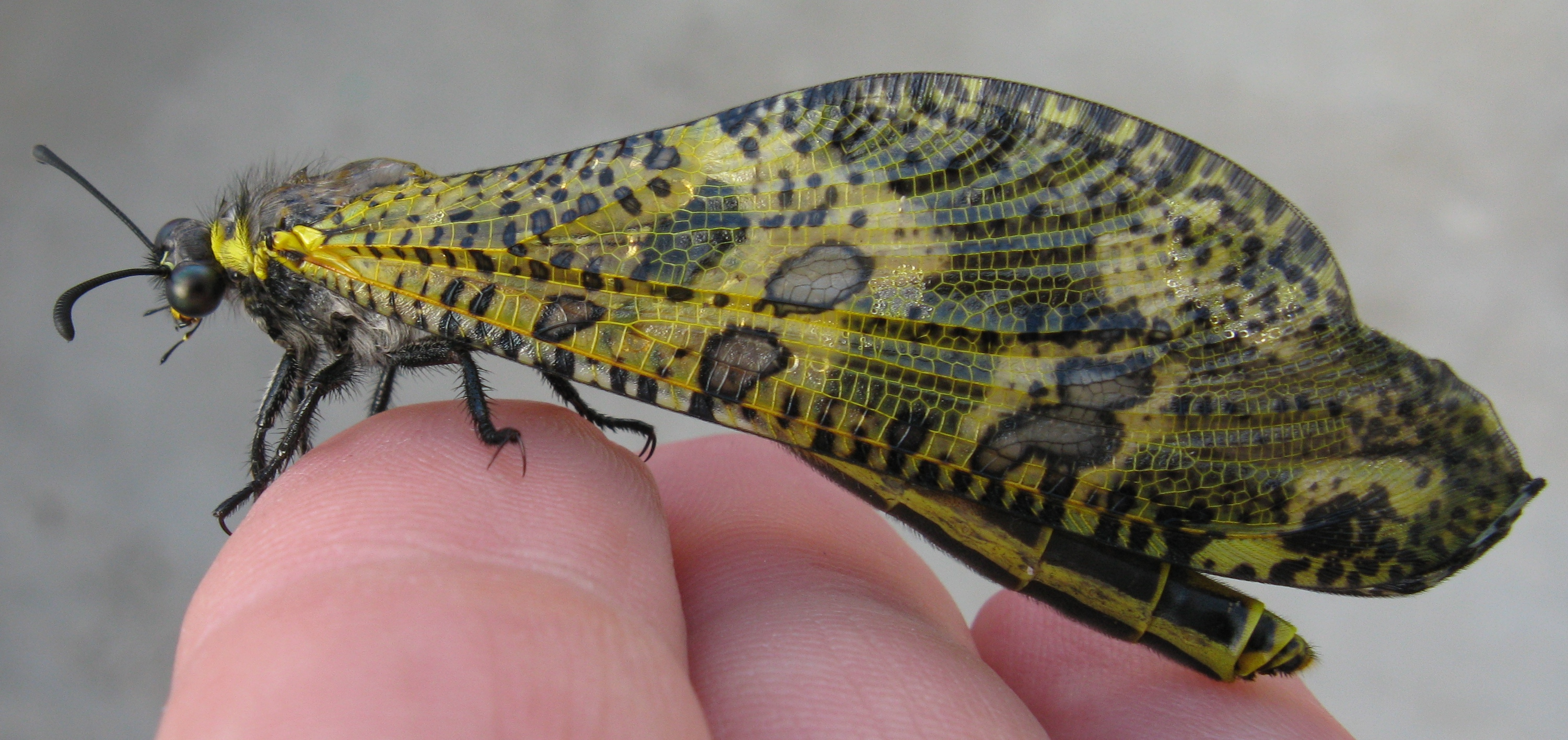 Palpares is s genus of large ant lions. The larvae do not build pits, but travel under sandy soil and lie in ambush for prey passing over. One reason for this might be that hoopoes and other ground-feeding birds tend to learn that edible larvae occupy ant-lion and worm-lion pits. Palpares speciosus has a wingspan of typically over 100 mm.